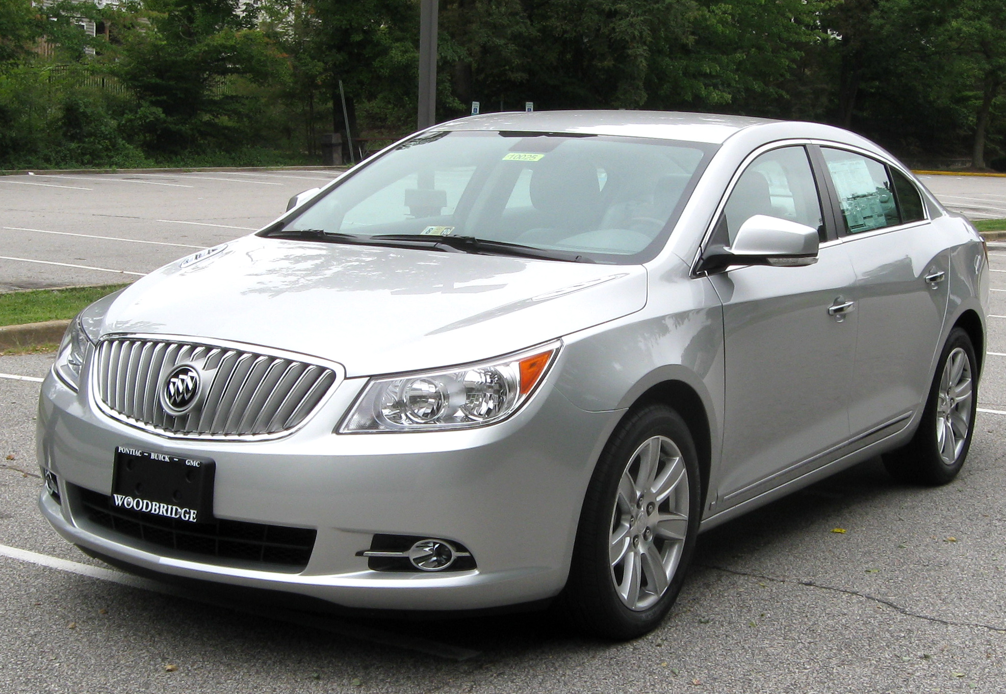 2010 Buick LaCrosse CXL photographed in Woodbridge, Virginia, USA.